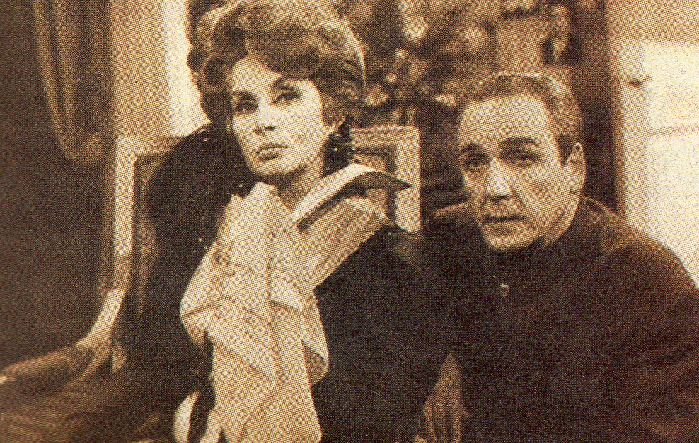 Argentine actors Tita Merello and Osvaldo Miranda in the film Idolos de Entrecasa.